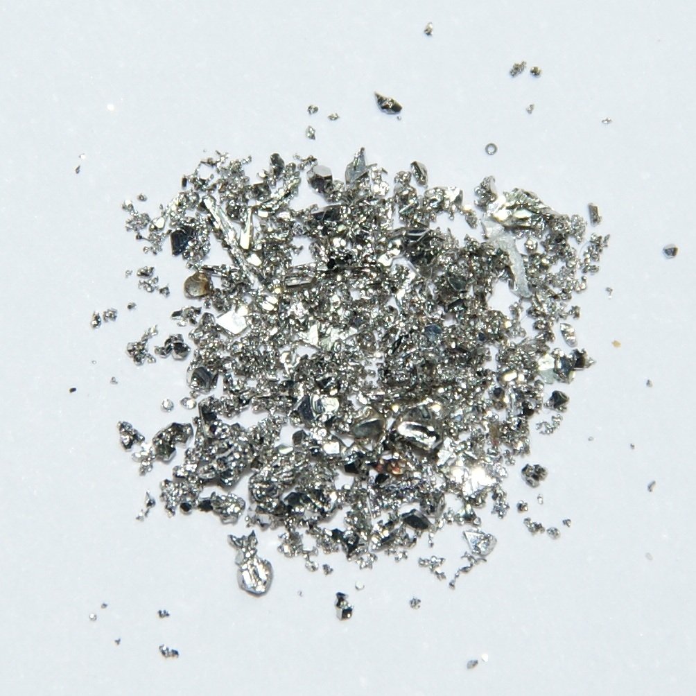 Tiny palladium crystals, the largest are 1-2 mm in size